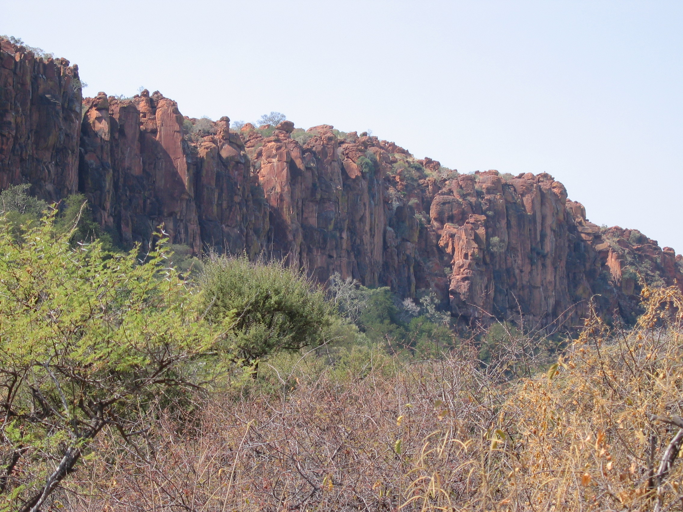 Waterberg's eastern rock face